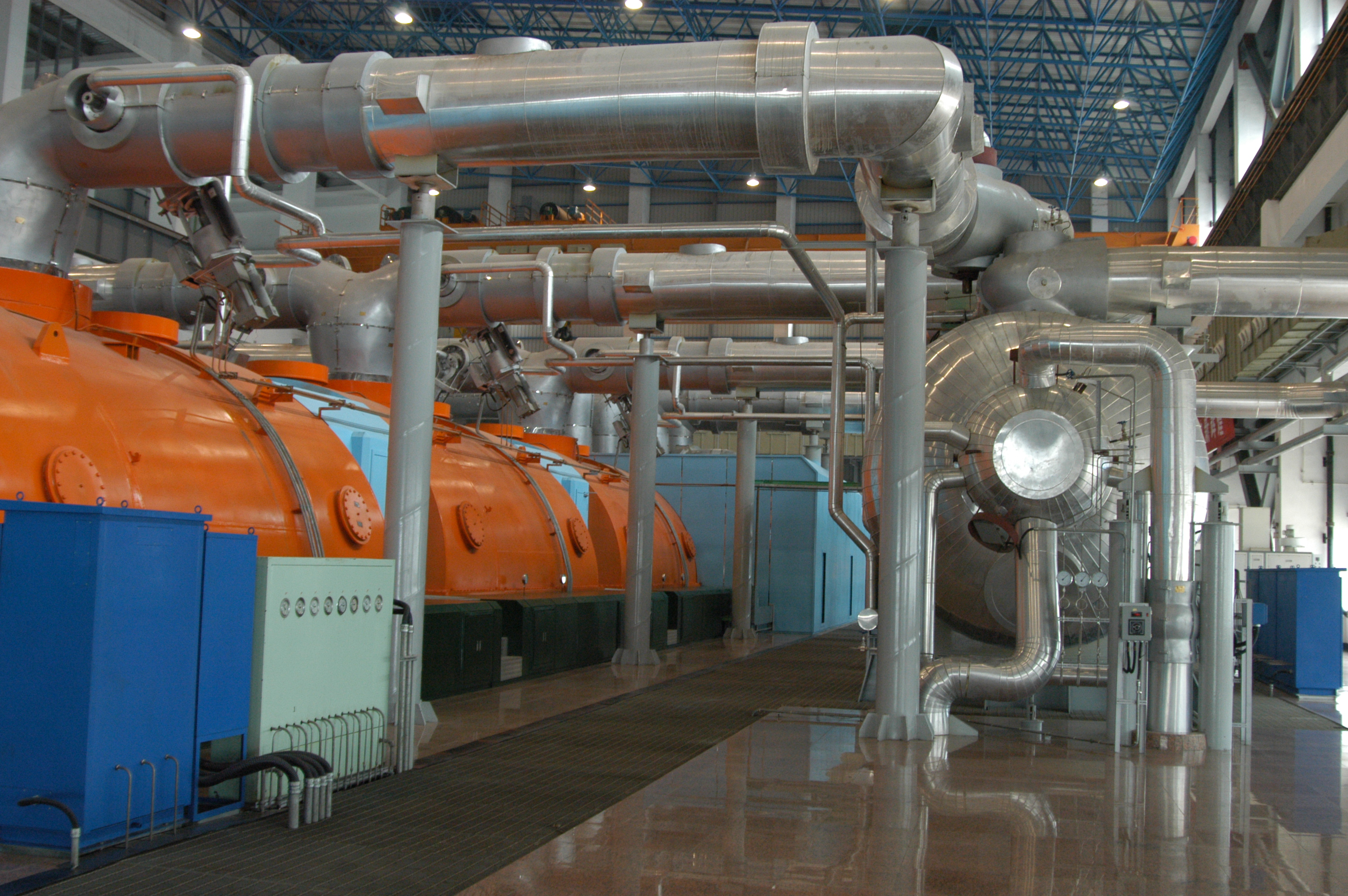 Turbine hall of Qinshan Nuclear Power Plant Phase 2 (China, June 2004).